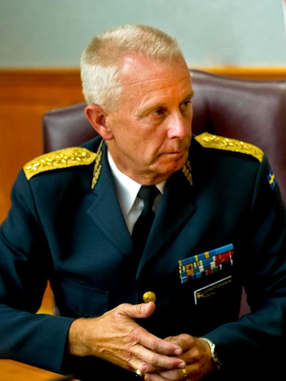 U.S. Navy Adm. Mike Mullen, chairman of the Joint Chiefs of Staff, and Gen. Sverker Göranson, supreme commander of the Swedish Armed Forces, meet in "The Tank," the Joint Chiefs of Staff secure conference room at the Pentagon, Aug. 5, 2010. DoD photo by U.S. Navy Petty Officer 1st Class Chad J. McNeeley